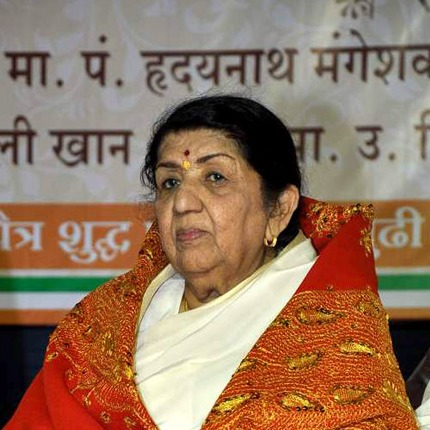 Lata Mangeshkar at Vishwashanti Kala Academy Award